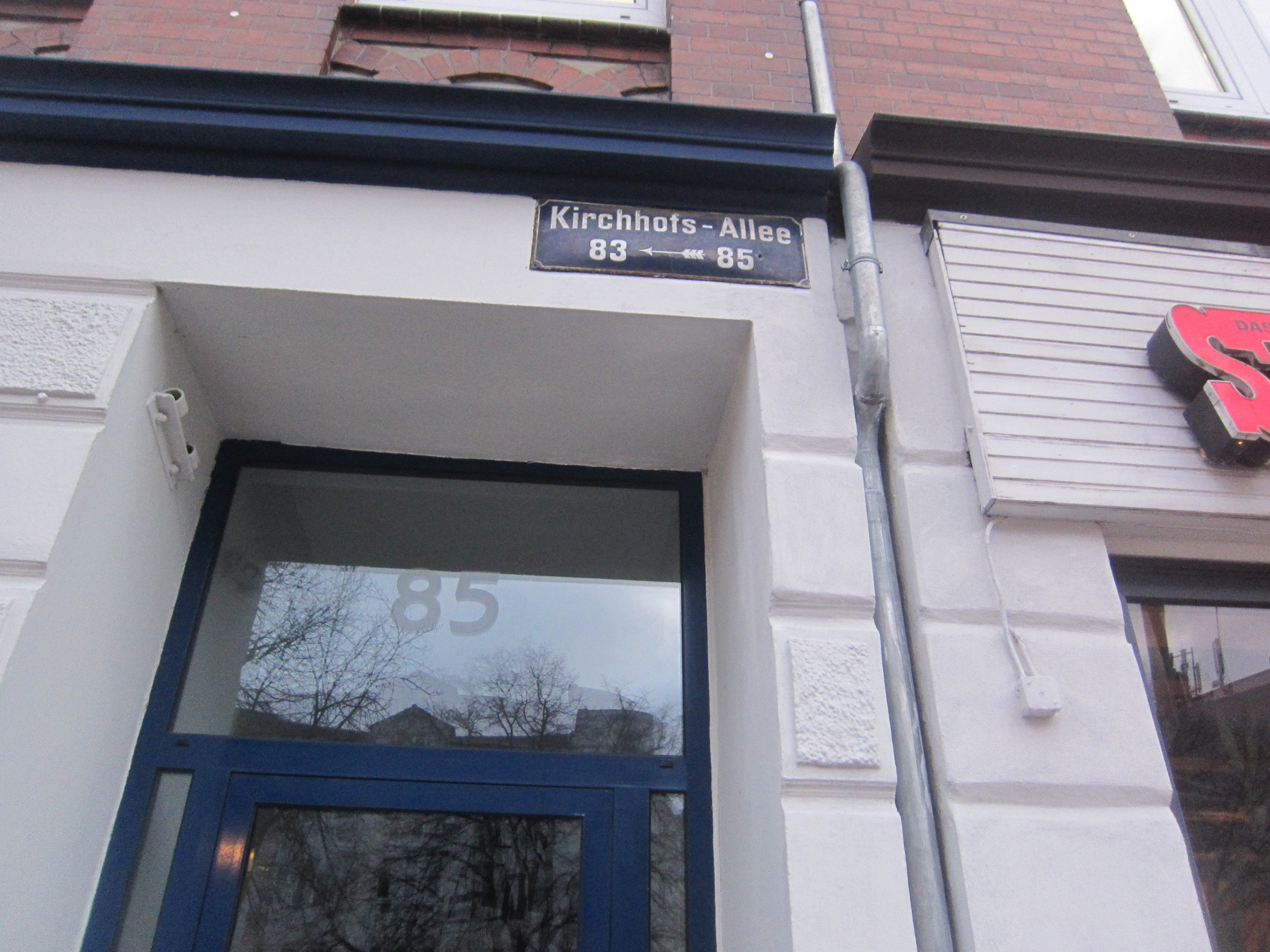 Street sign "Kirchhofs-Allee" in Kiel-Südfriedhof